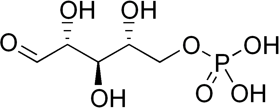 chemical structure of ribose 5-phosphate created with ChemDraw